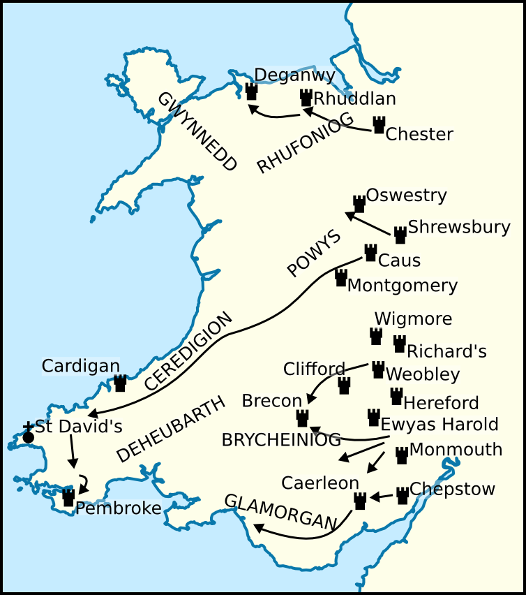 Map of the Anglo-Norman advance into Wales. I based this image off one illustrated in the following boook: Chibnall, Marjorie (2006) The Normans, Blackwell, ISBN 978-1-4051-4965-5, page 66.